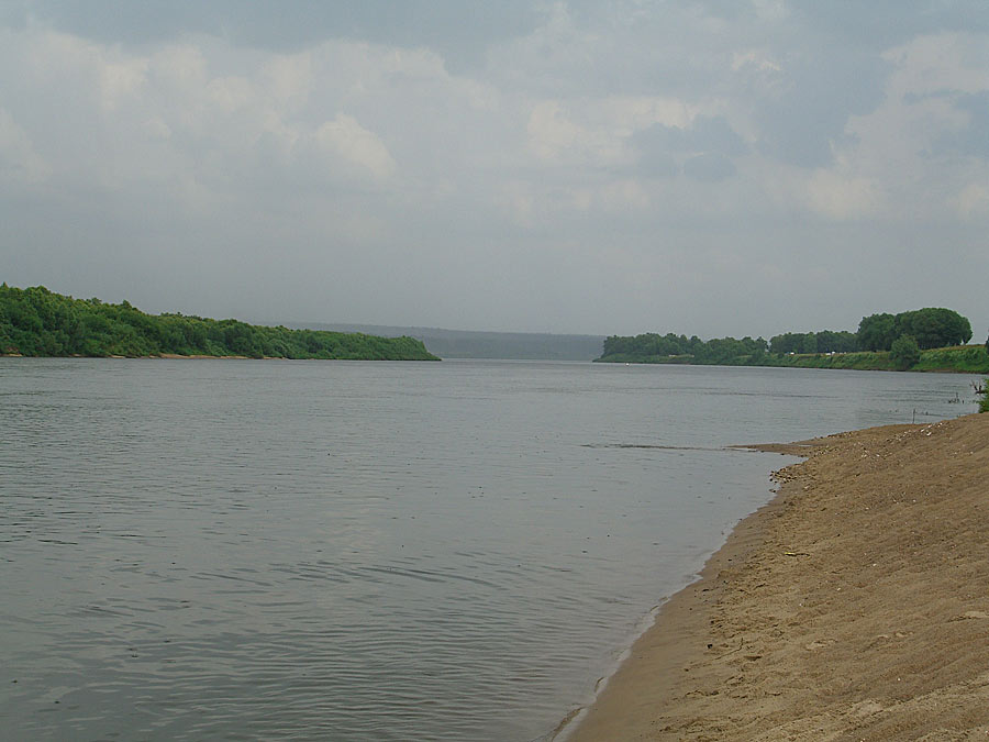 This picture was taken in 2005